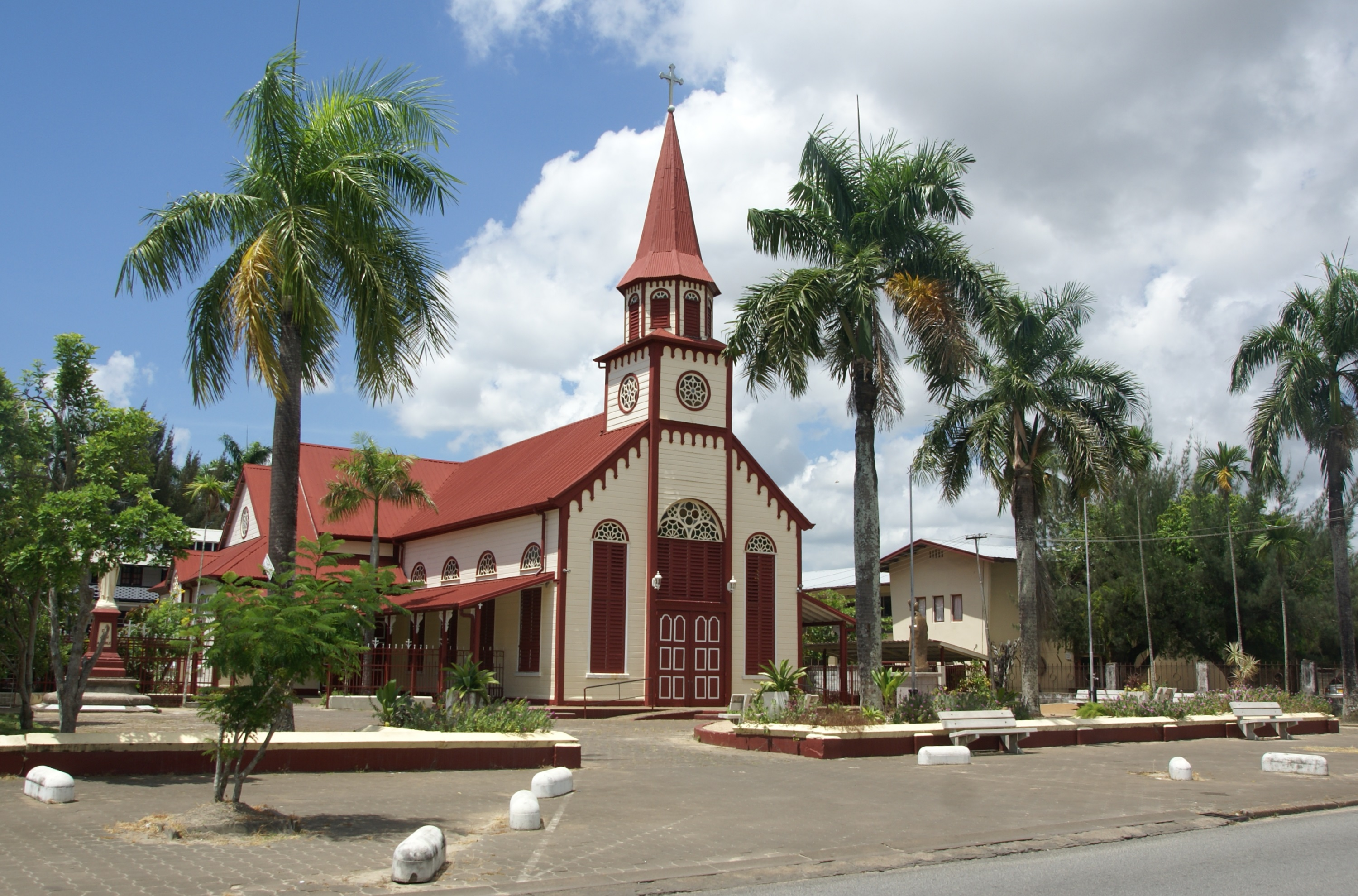 Sint-Alfonsuskerk, Verlengde Keizerstraat 65, Paramaribo, Surinam.